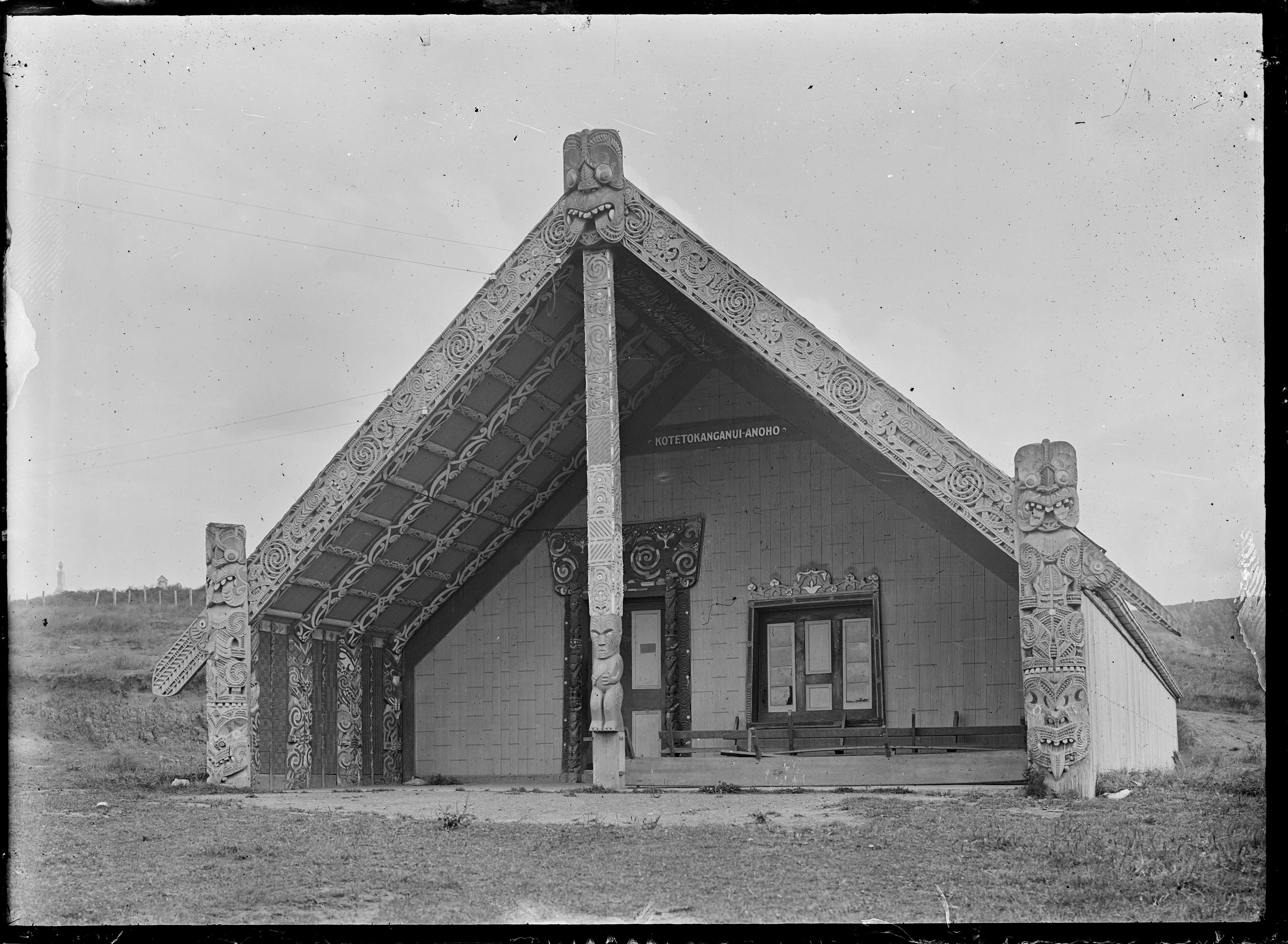 Maori Meeting House Te Tokanganui-A-Noho at Te Kuiti, showing the carved panels, rafters and entrance. Photograph taken by Albert Percy Godber in 1917.